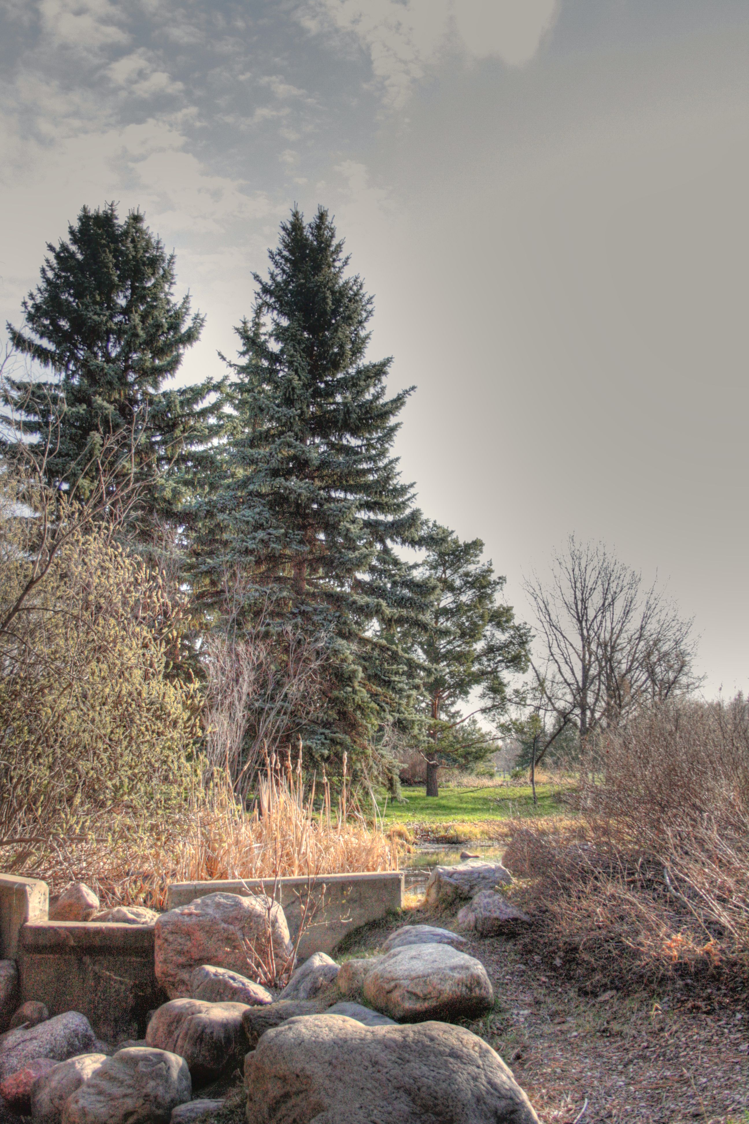 A watercourse in Hawrelak Park, Edmonton, Alberta. Canada.